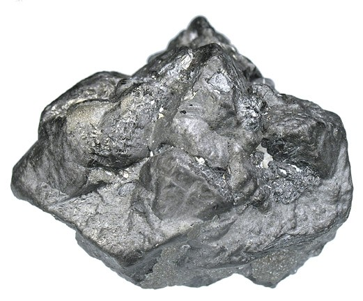 Stannite Locality: San José Mine, Oruro City, Cercado Province, Oruro Department, Bolivia (Locality at ) Size: 3.2 x 2.8 x 2.5 cm. These specimens came out of this mine two years ago and are among some of my favorite "new finds" from Bolivia. This piece features some VERY large, lustrous, dark silvery brass colored, twinned crystals of the rare copper iron tin sulfide Stannite. The Stannite crystals are virtually as large as individual crystals of Stannite get from any locality in Bolivia. There were only a handful of these specimens, and for my money, they are superior to most Stannite from China because the Chinese crystals are sometimes composite crystal groups consisting of many smaller crystals to form a larger aggregate, and nowhere else besides this find have I ever seen twinned Stannite crystals like these. This is a very choice specimen and a great quality "toenail" for what it is. These are some of the largest crystals of this species I’ve seen from Bolivia.